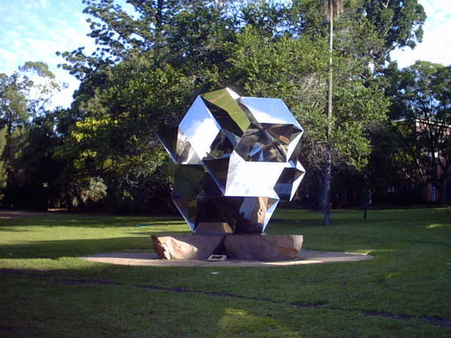 'Morning Star II' by Jon Barlow Hudson